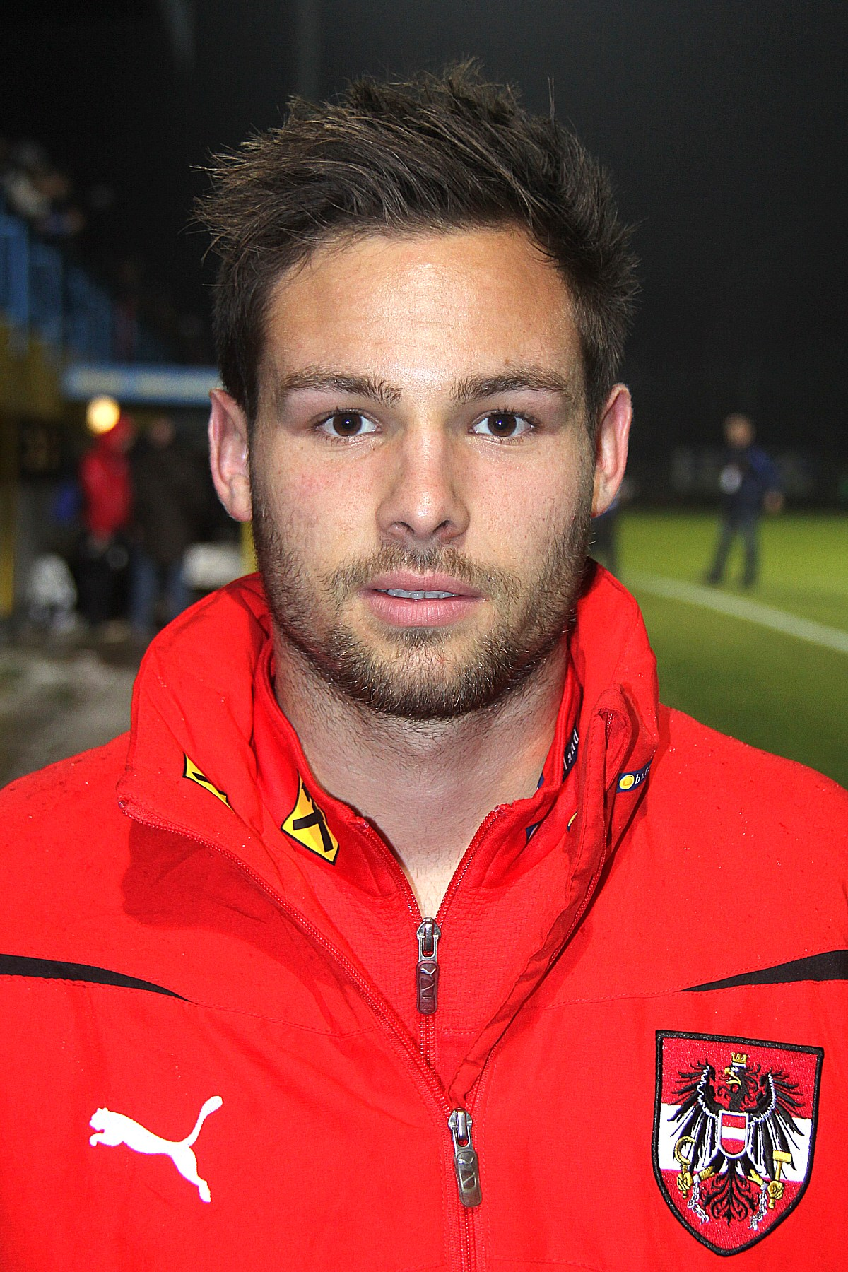 Friendly-match Austria U-21 vs. Turkey U-21 (2:0) on 2013-11-14 in Wiener Neudorf. – The photo shows David Schloffer (SK Sturm Graz, Turkey).